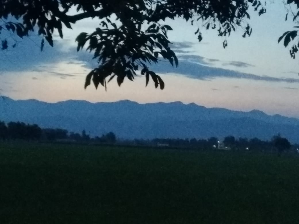 Chorgalia is a forest route of Uttarakhand state, India